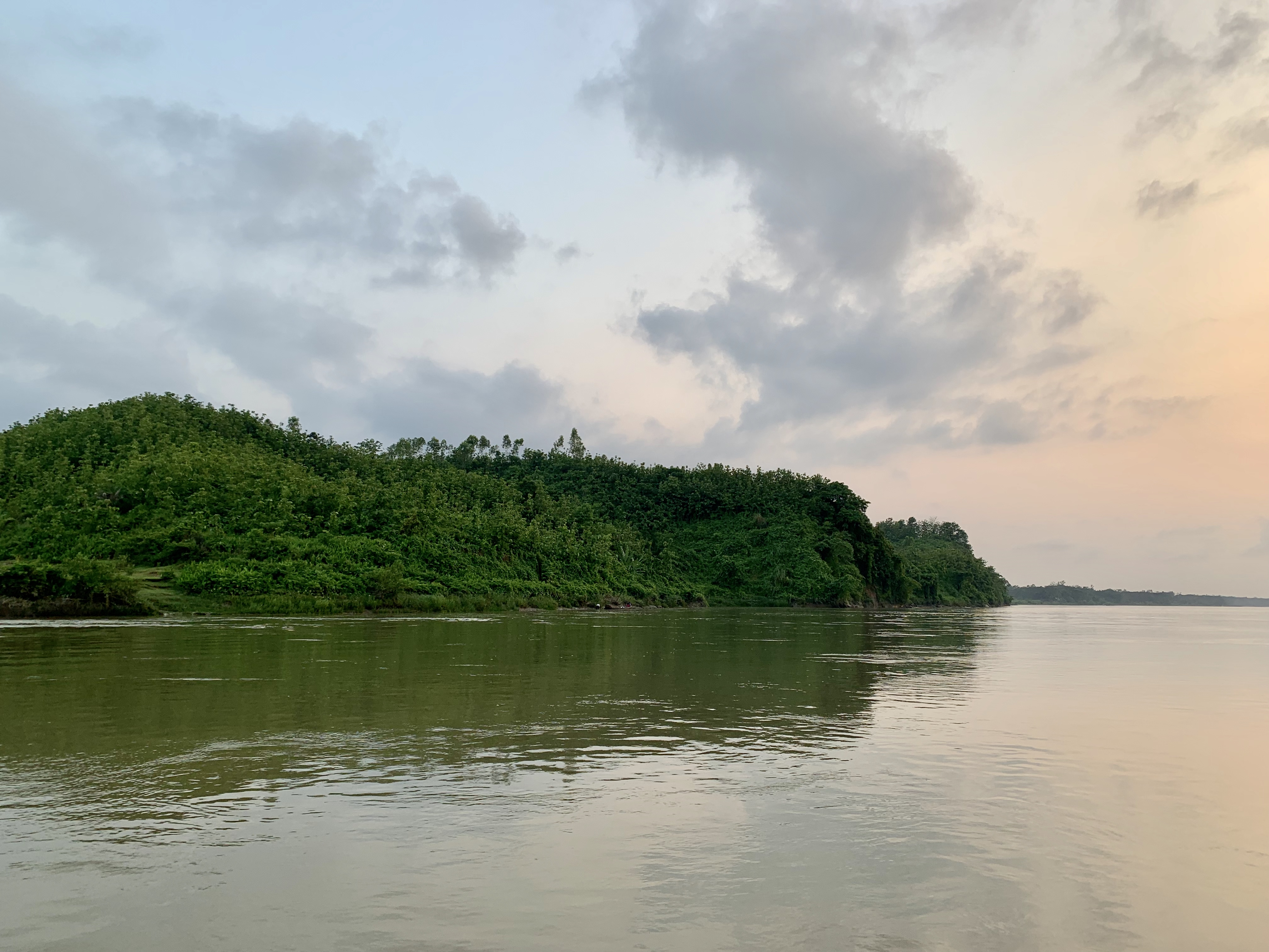 Karnaphuli River